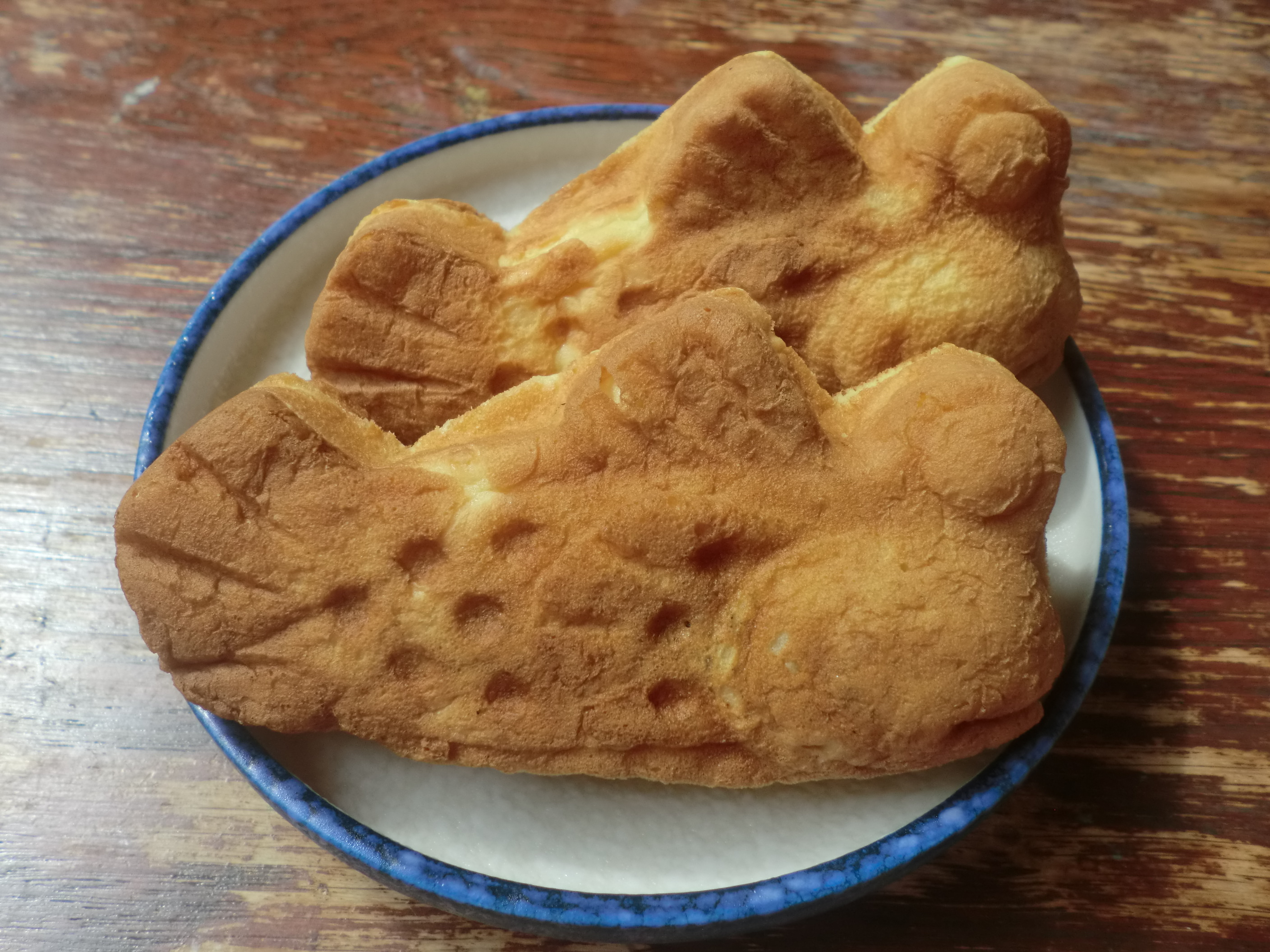 Mutchan manju(a kind of Manju) famous in Fukuoka prefecture,Japan.